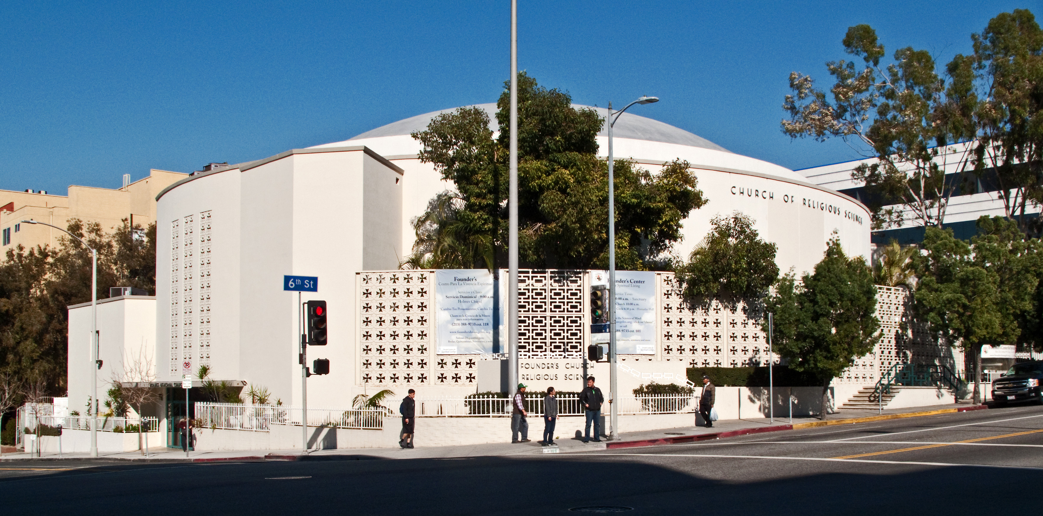 Founder's Church of Religious Science, northeast corner of Berendo and 6th Streets, in the Koreatown neighborhood of Los Angeles, California. Los Angeles Historic-Cultural Monument #727.